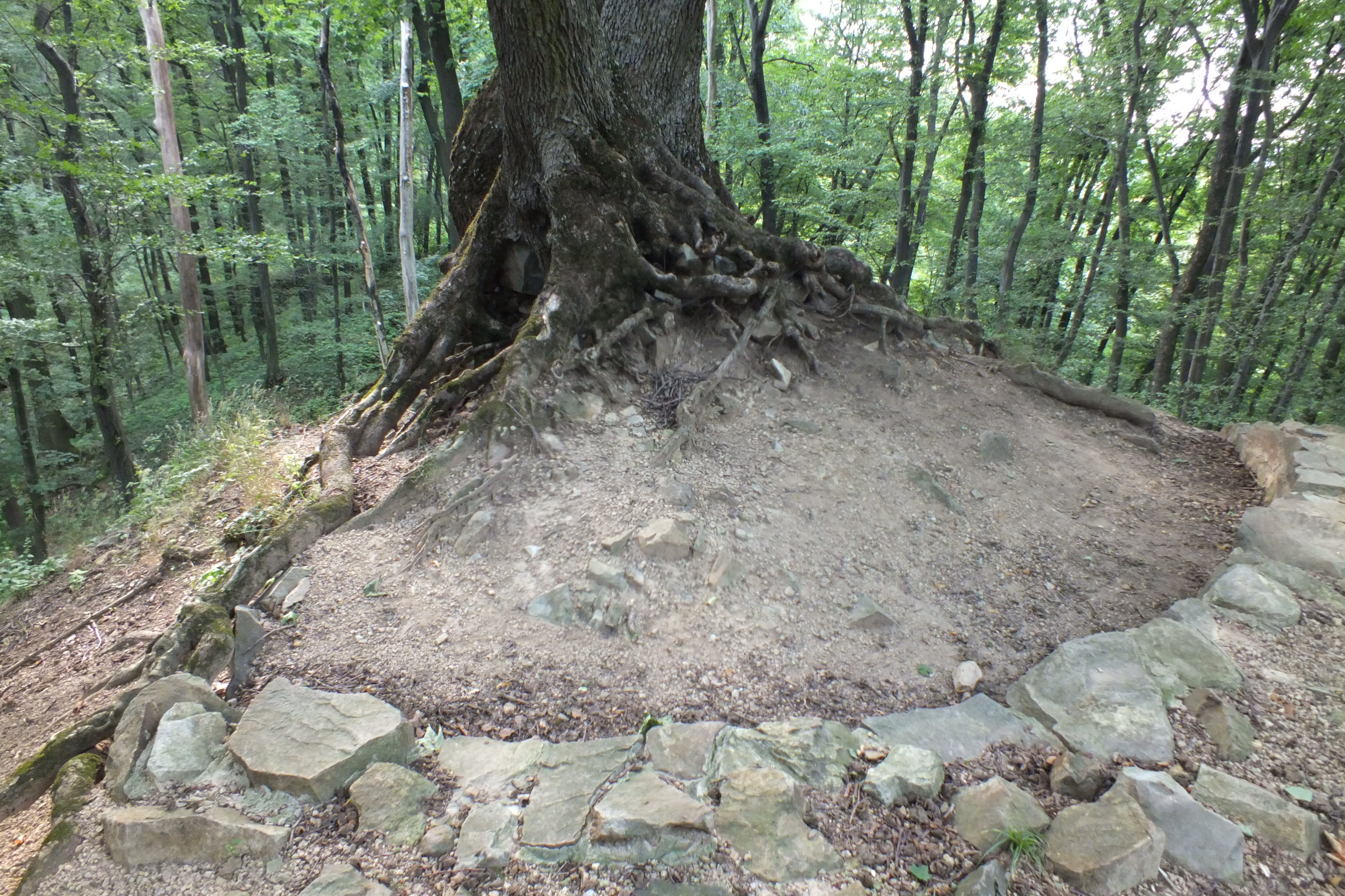 Ruins of the castle Zuvačov on the promontory Hrádek in the White Carpathians, near the village of Komňa, the Czech Republic.